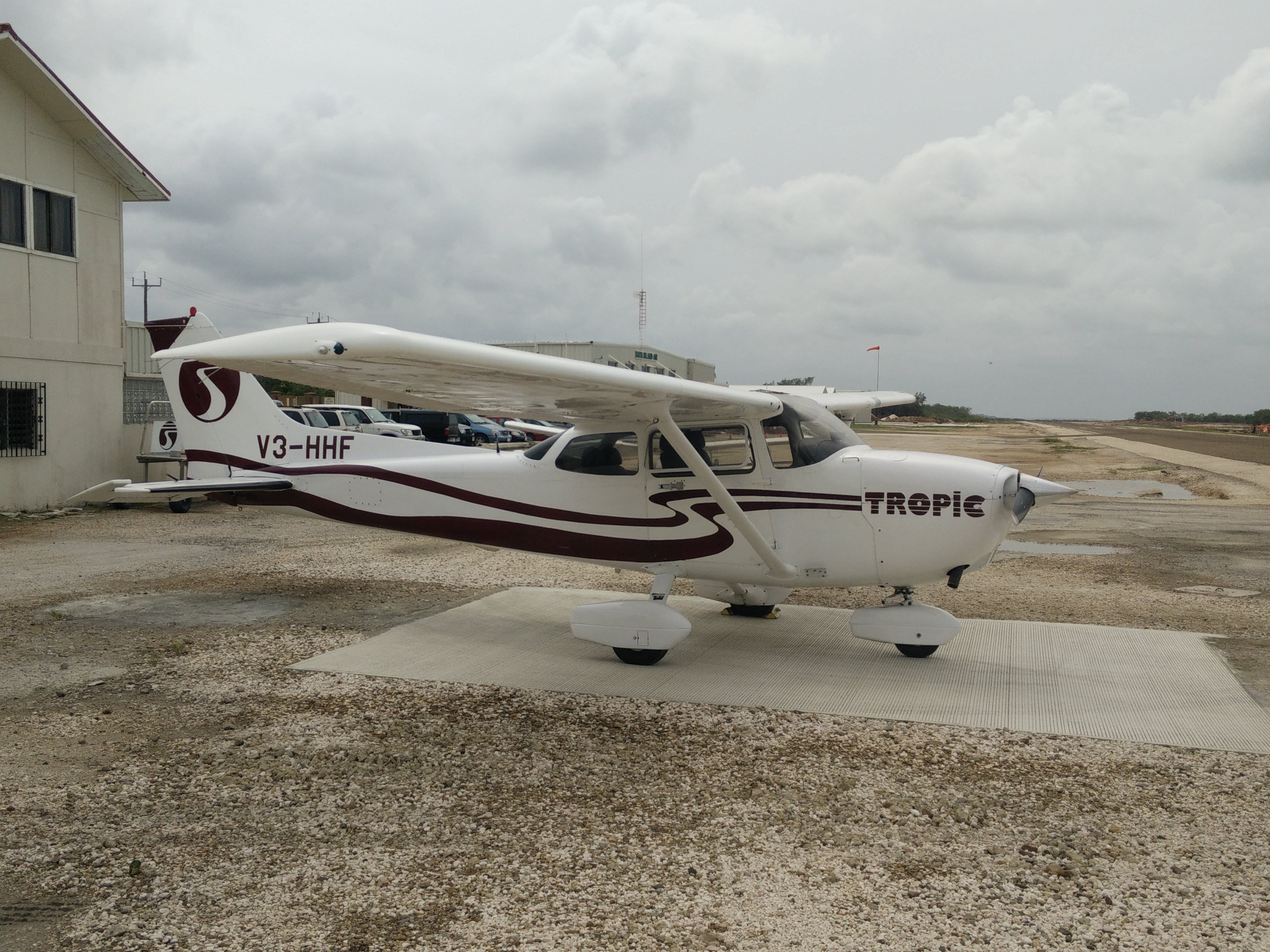 Tropic Air Cessna Skyhawk 172 V3-HHF @ Belize City Municipal Airport